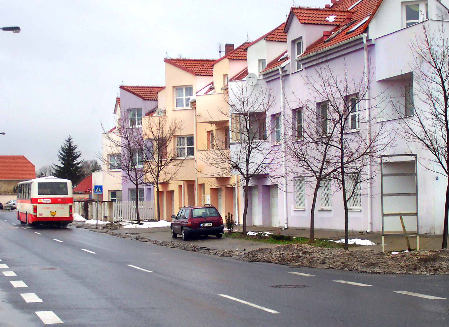 New houses at Šeberov, Prague